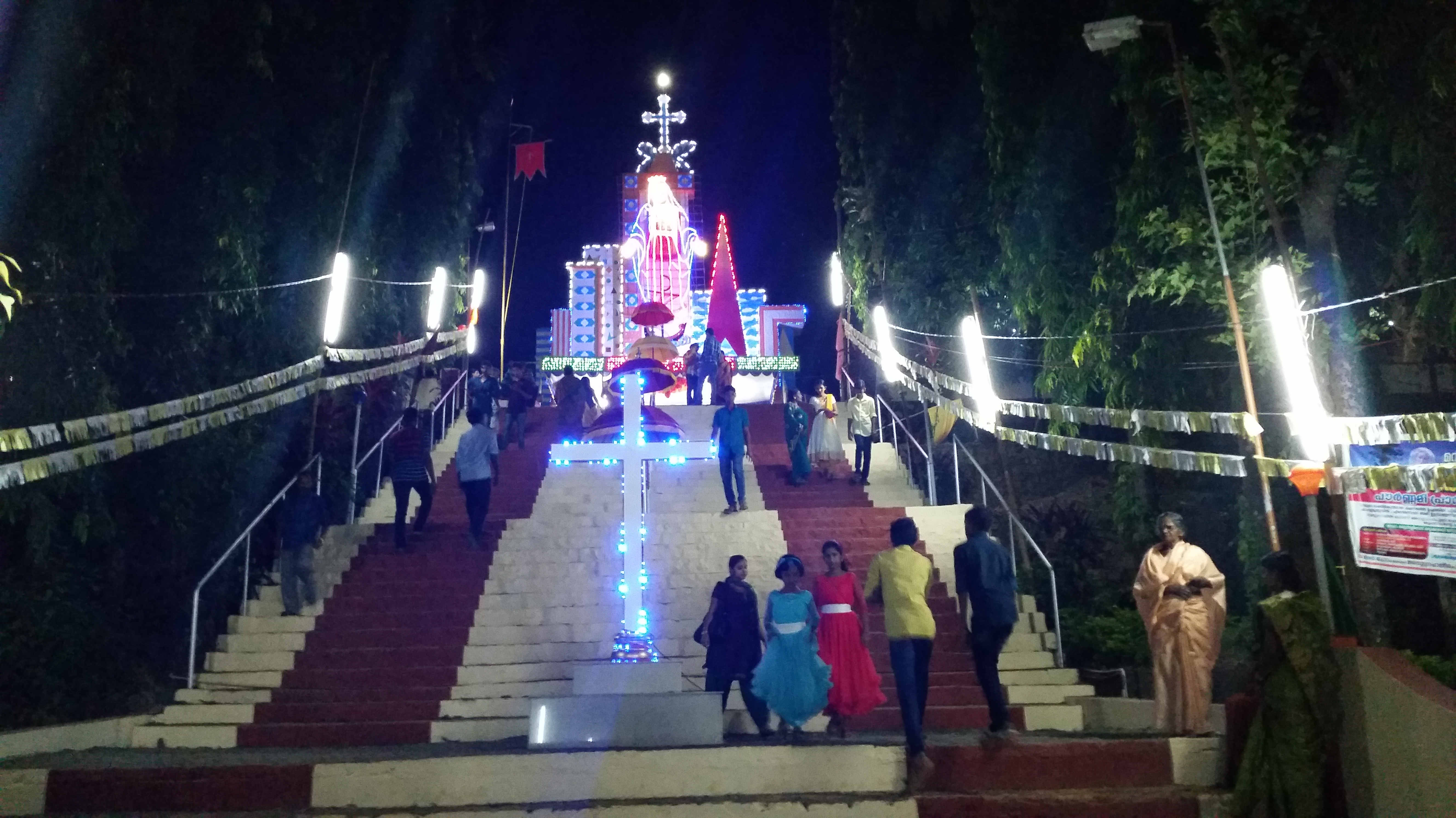 Church Feast